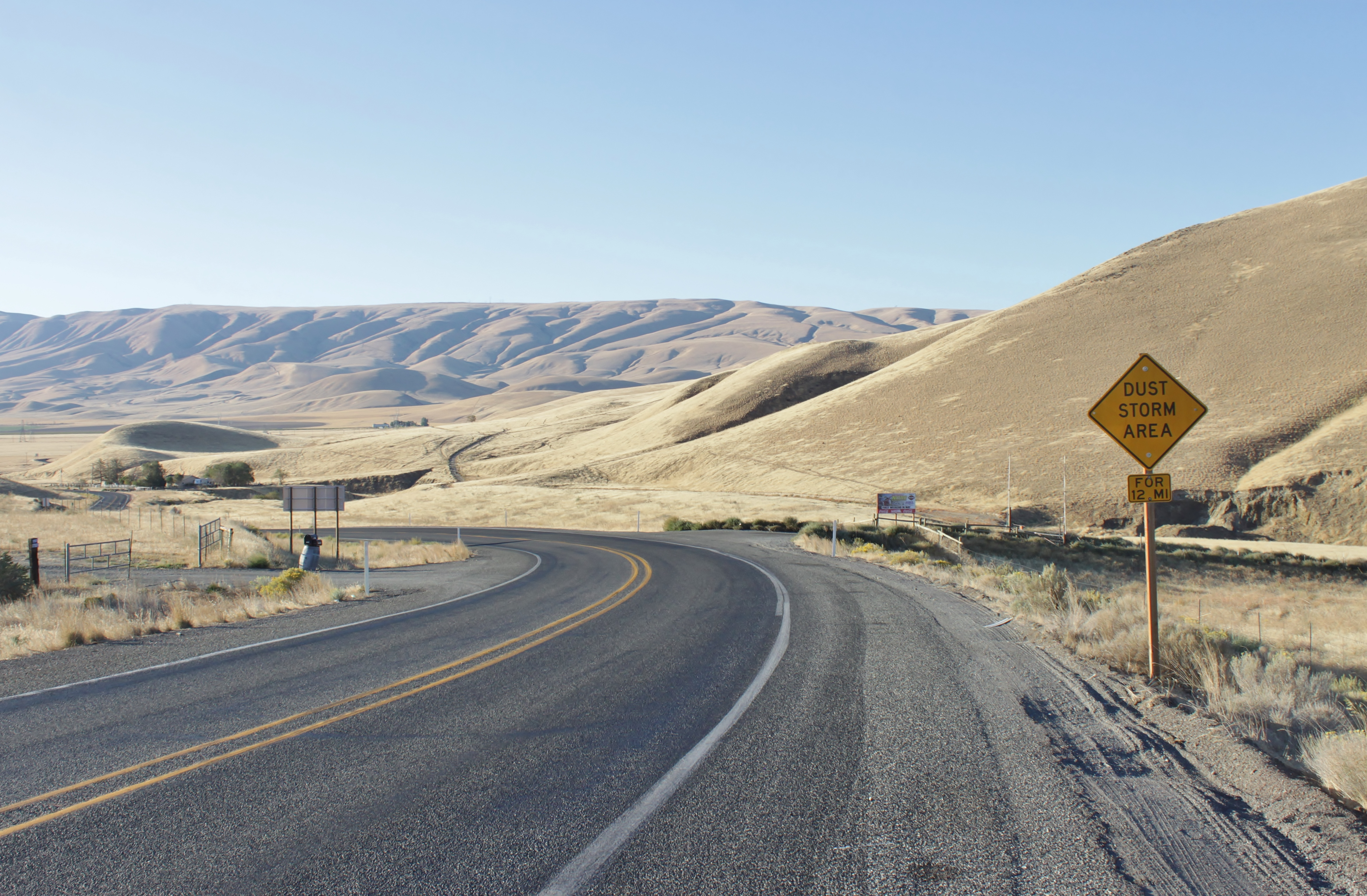 Looking southbound on State Route 241 from its junction with State Route 24 at the Silver Dollar Cafe west of the Hanford Reservation.